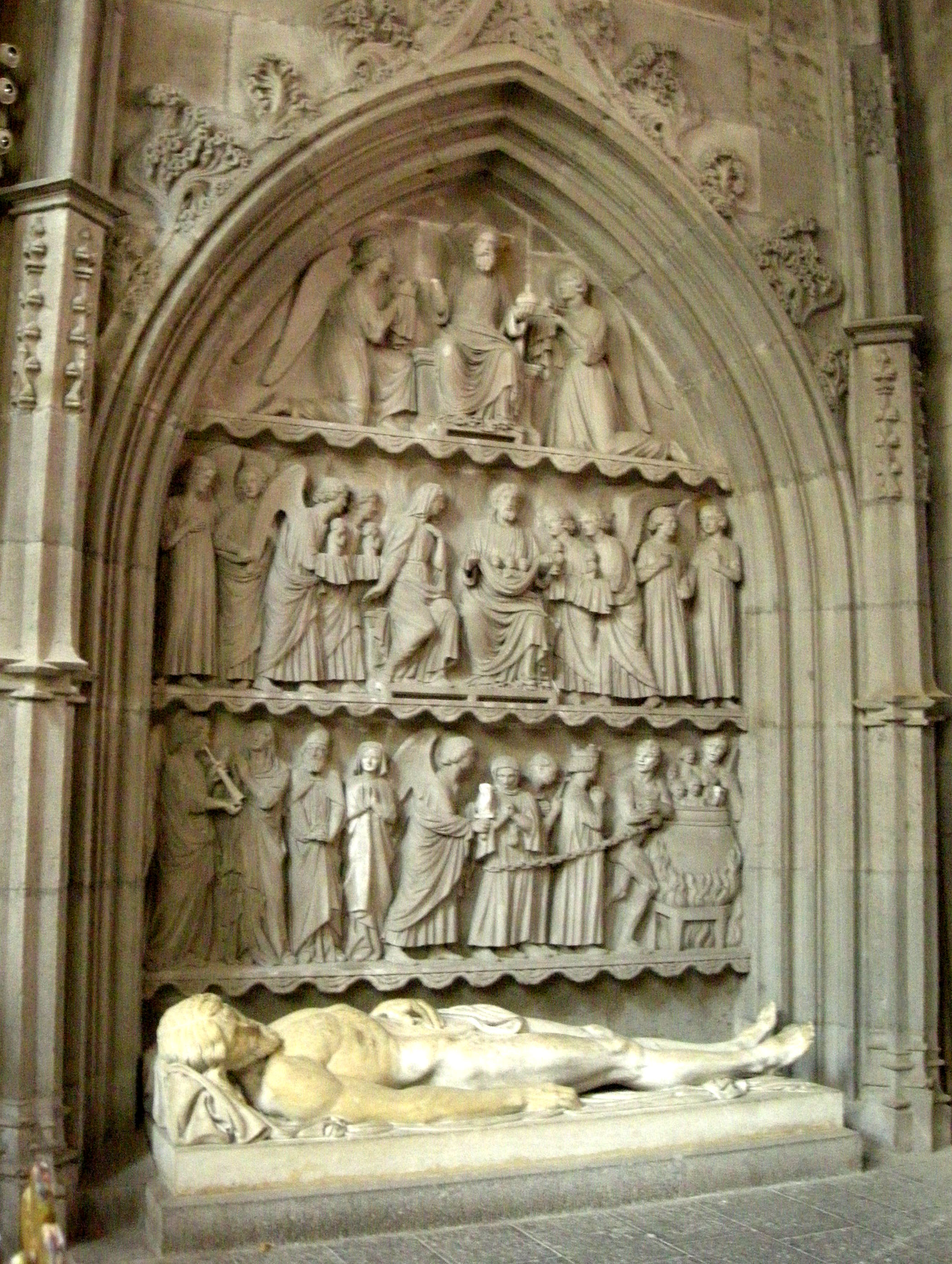 Christ au tombeau (Fauginet, 1842), Saint-Flour Cathedral